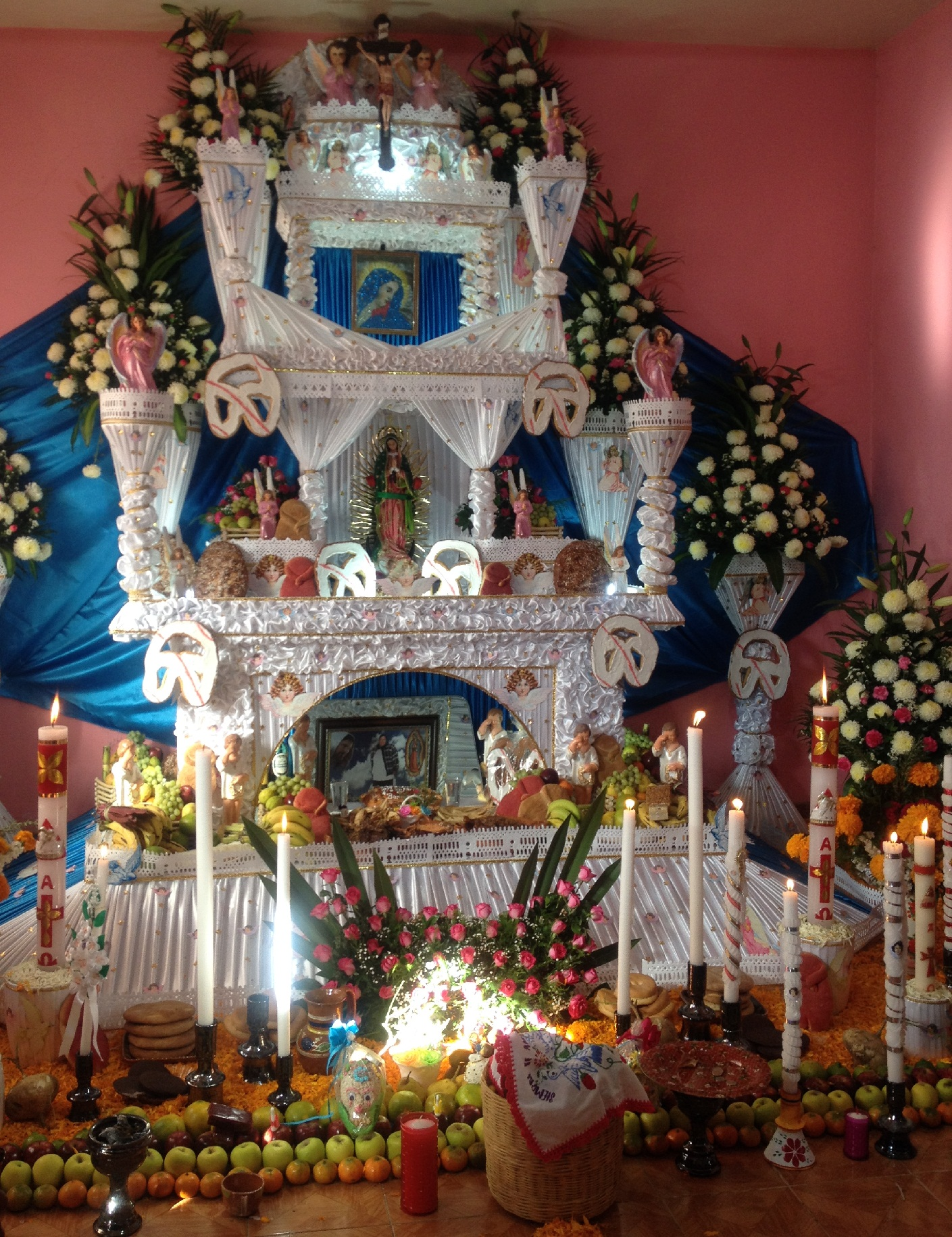 Altar tradicional de Día de Muertos en Huaquechula (Puebla, México).